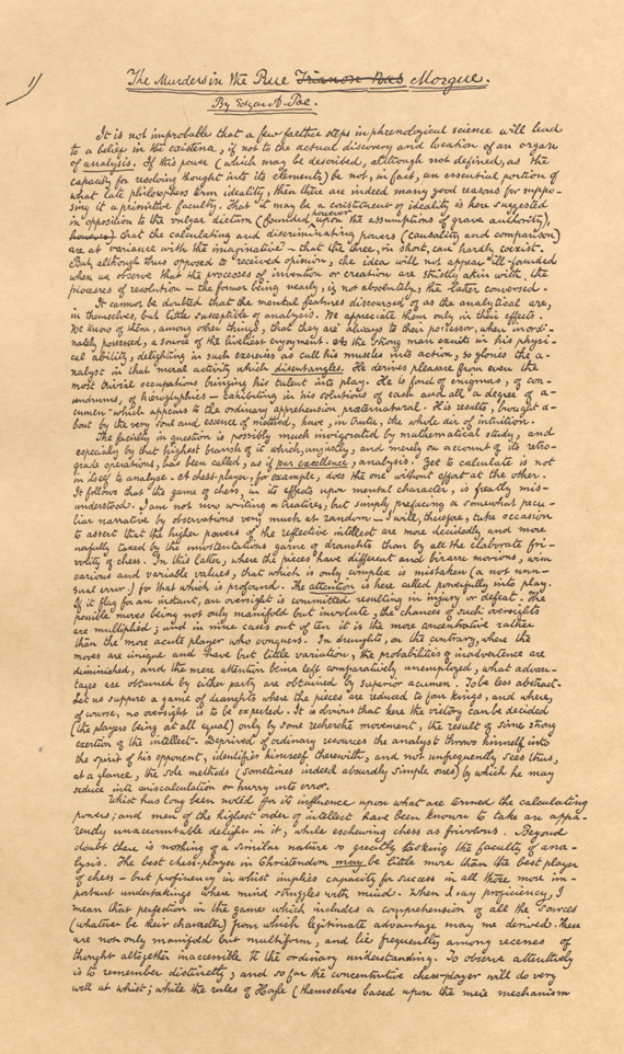 Facsimile of Edgar Allan Poe's original manuscript for "The Murders in the Rue Morgue", from the Susan Jaffe Tane collection, Cornell University.